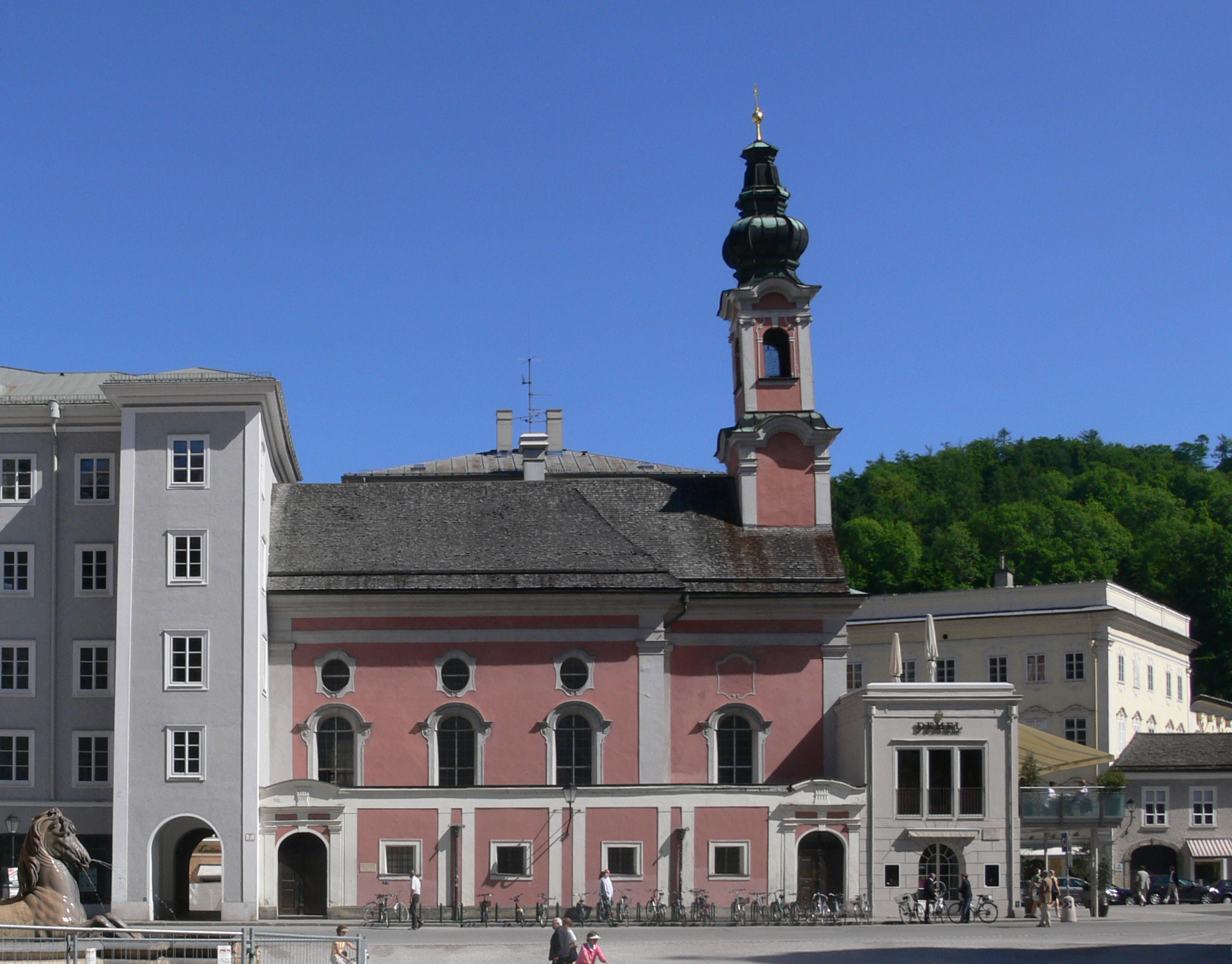 Austria, Salzburg, Residenzplatz